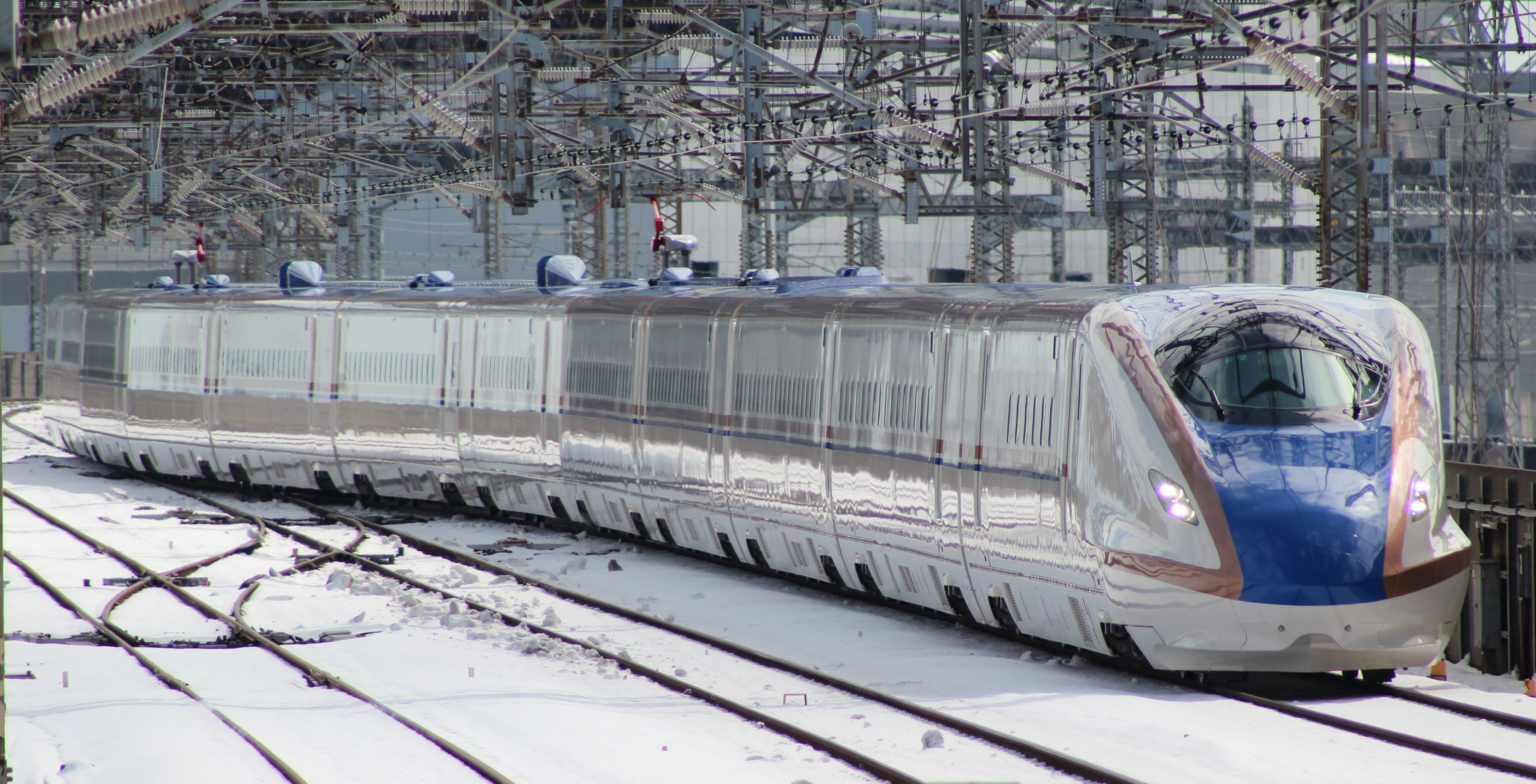 JR East E7 series shinkansen set F2 approaching Omiya Station on a public preview run